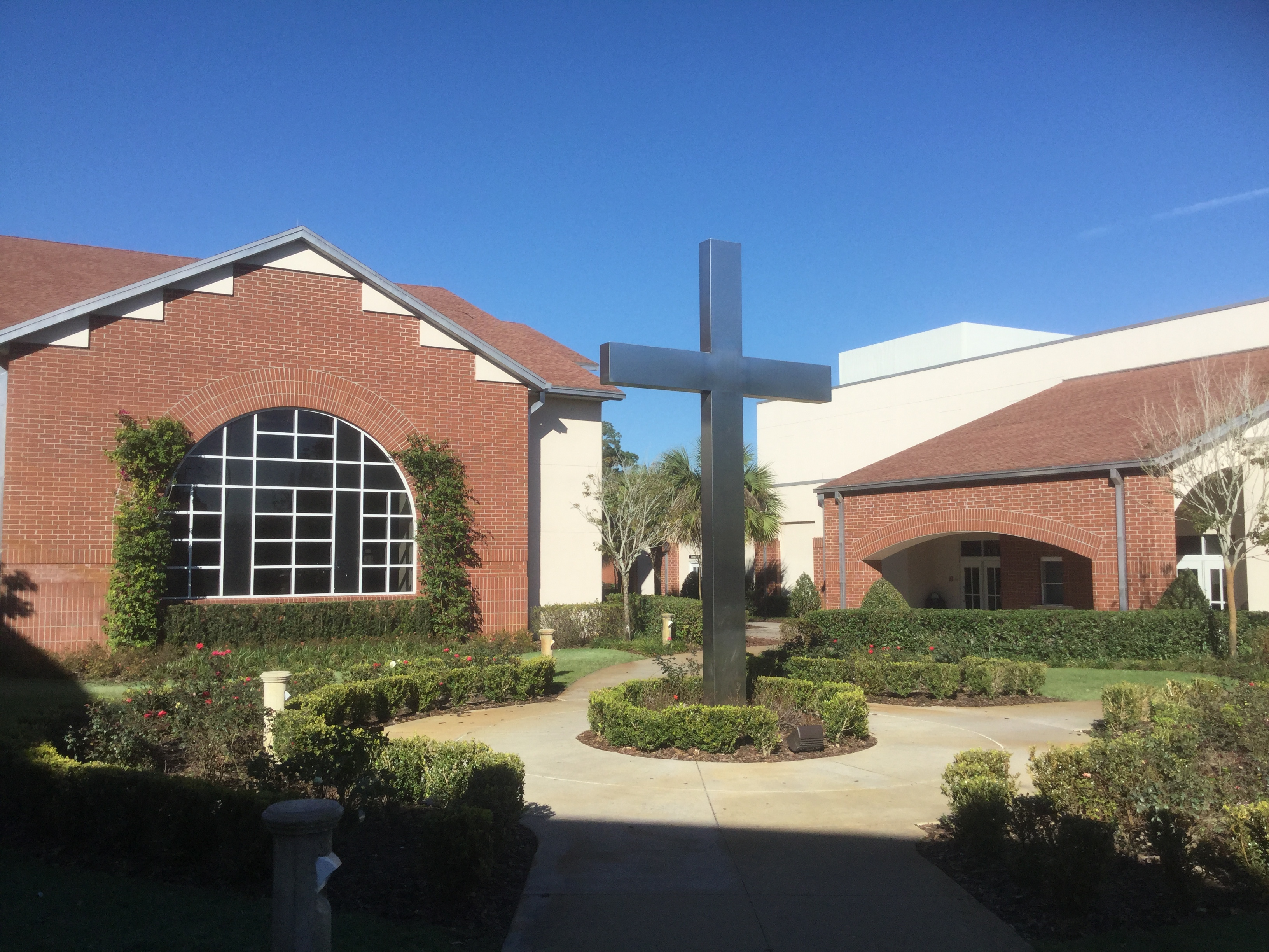 Central part of the campus showing the student center in the back, the gym to the right, and a silver cross in the center.